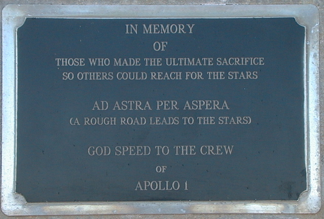 Second plaque at the site of Launch Complex 34.